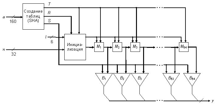 Simple diagram of Software-optimized Encryption Algorithm (SEAL)